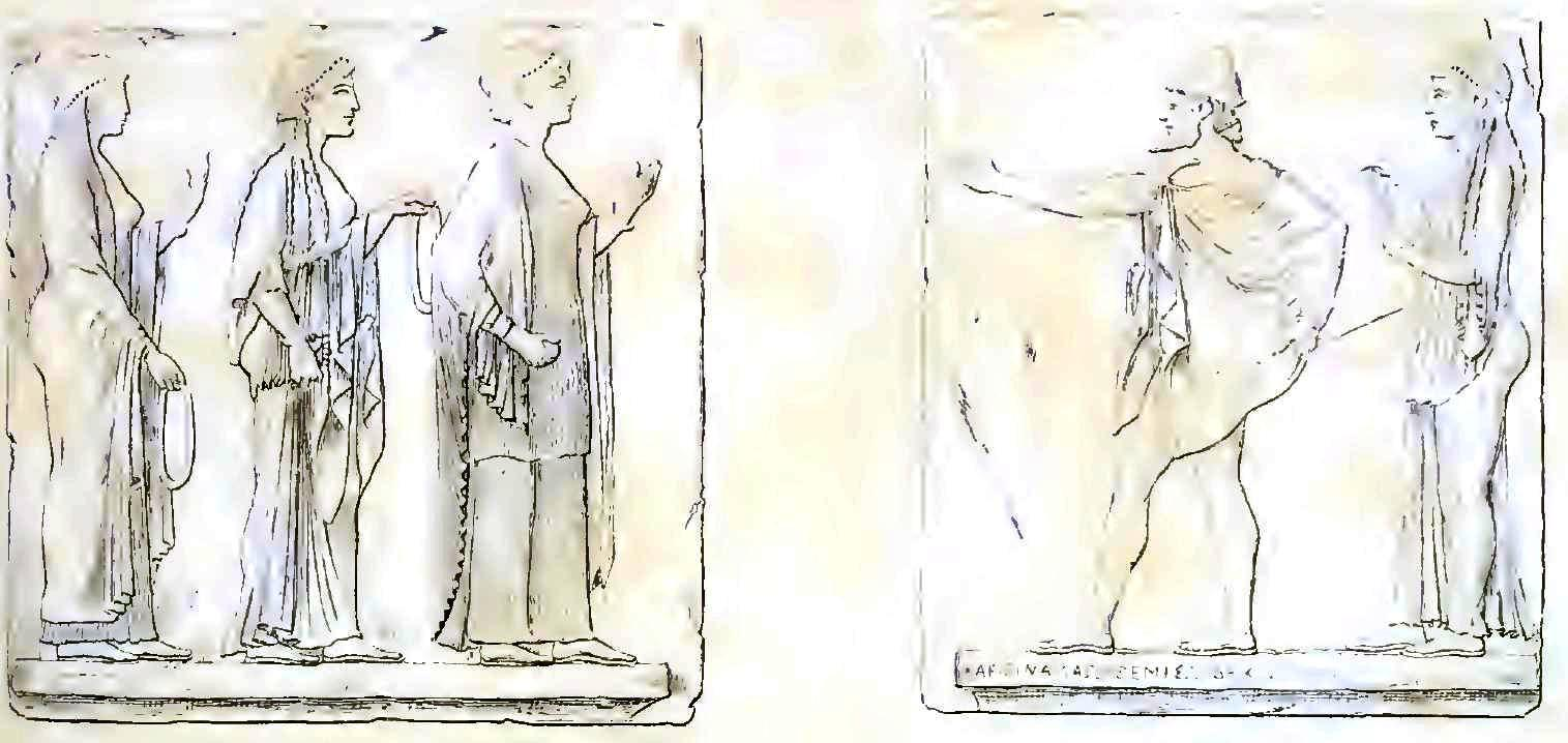 Hermes Agoraios and the Charites, relief of the Passage of Theori, from the agora of Thasos.